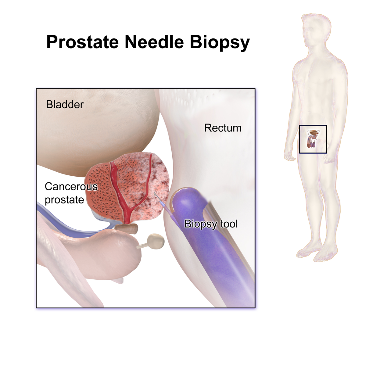 Prostate Needle Biopsy. See a full animation of this medical topic